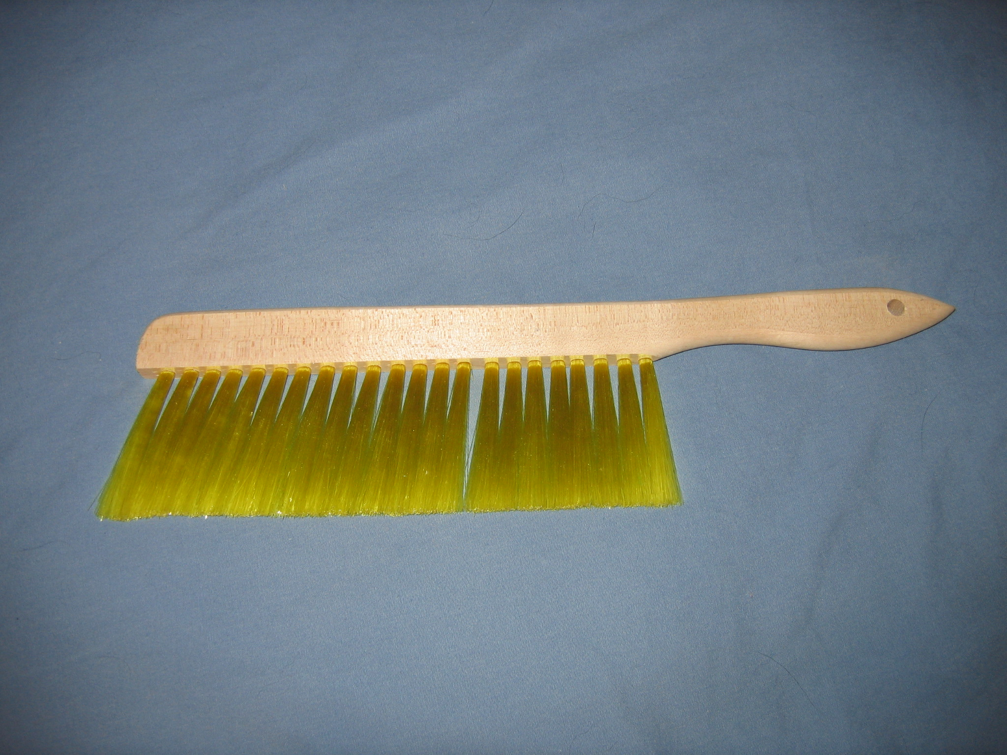 Photograph of a bee brush take by Robert Engelhardt. This picture was taken specifically for the Beekeeping Wiki book, but may be used for any purpose for which it is fit.